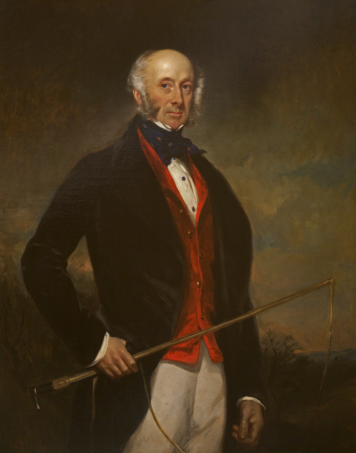 Full title: "Sir Charles Morgan Robinson Morgan (1792–1875), 3rd Bt, 1st Baron Tredegar". Oil on canvas, 127 x 101.5 cm. Owned by Newport City Council; on loan to the National Trust at Tredegar House. Accession number:1550169